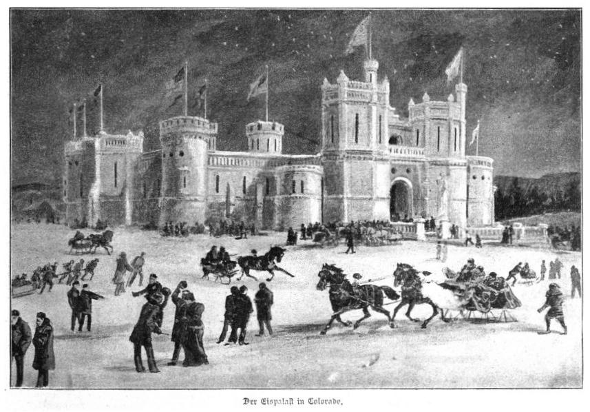 Ice palace in Colorado, USA 1896.